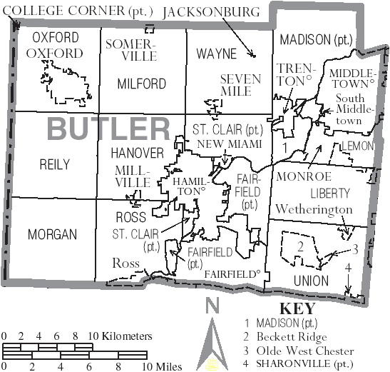 Map of Butler County, Ohio, United States with township and municipal boundaries